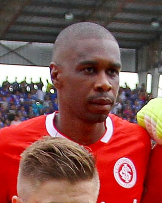 Juan Silveira dos Santos